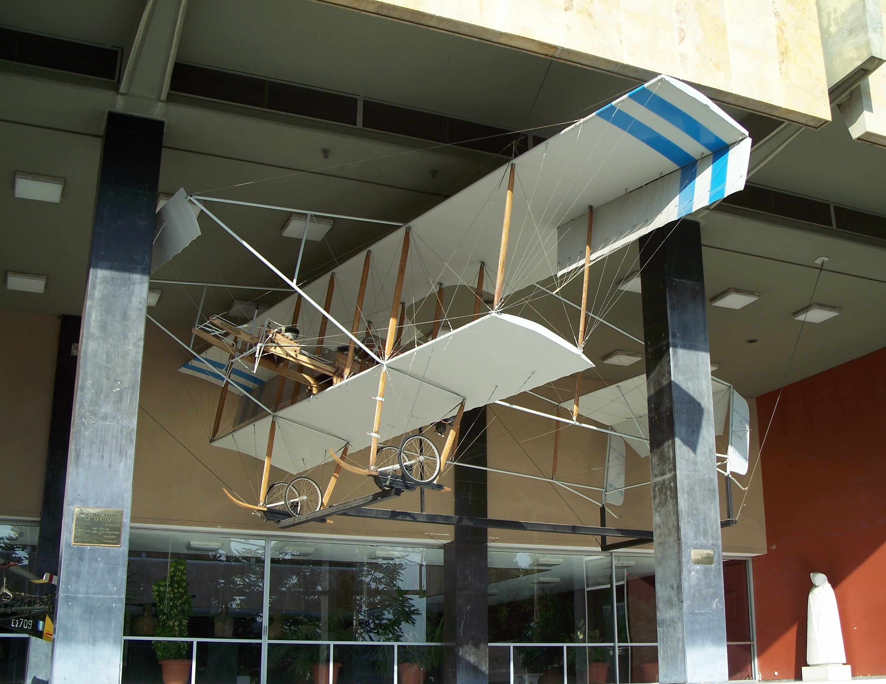 The "Daedalus", a Henry Farman biplane from 1912, first aeroplane used by the greek Air Force, on display outside the War Museum, Athens.